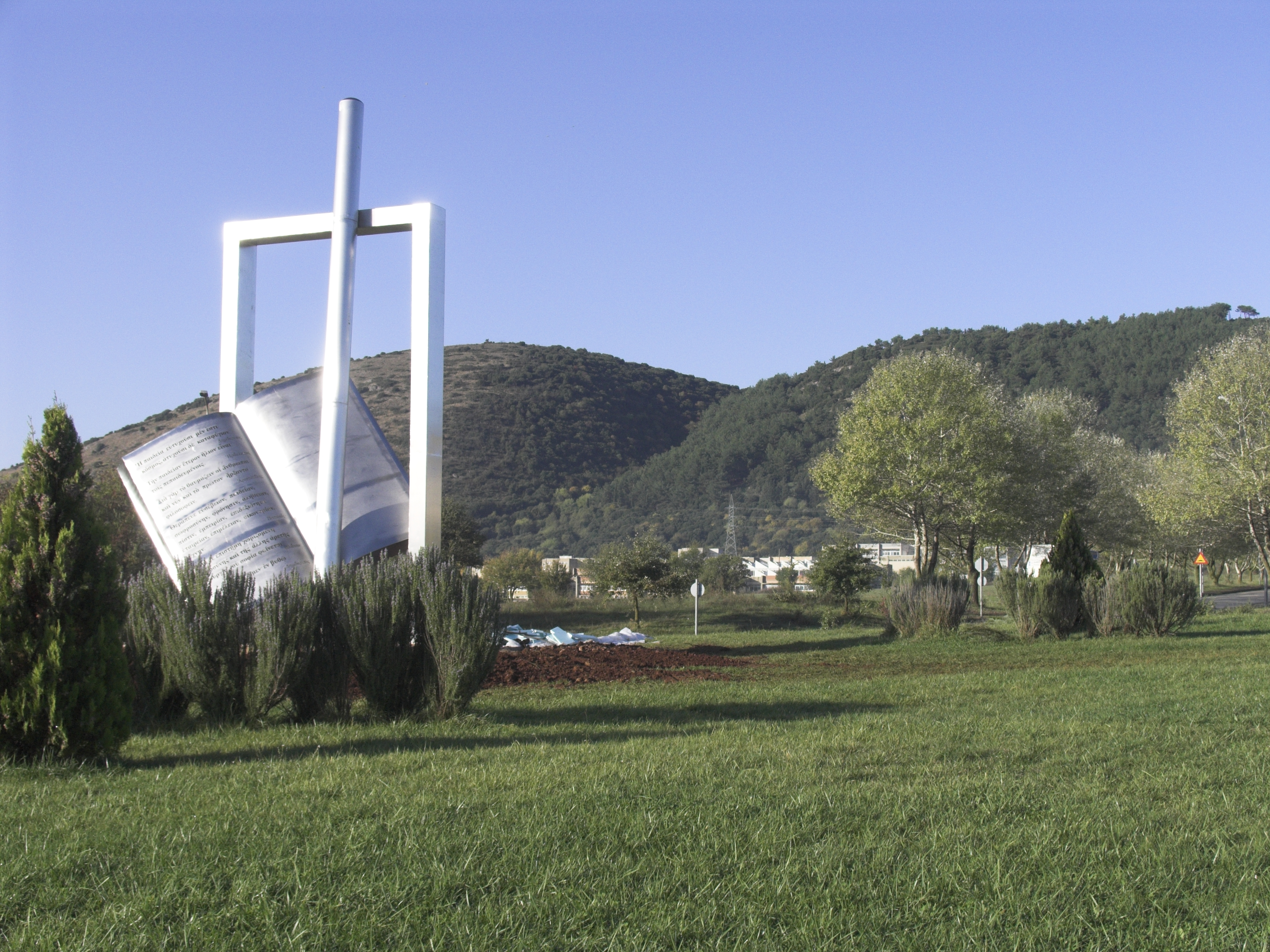 Entrance of the University of Ioannina, Greece